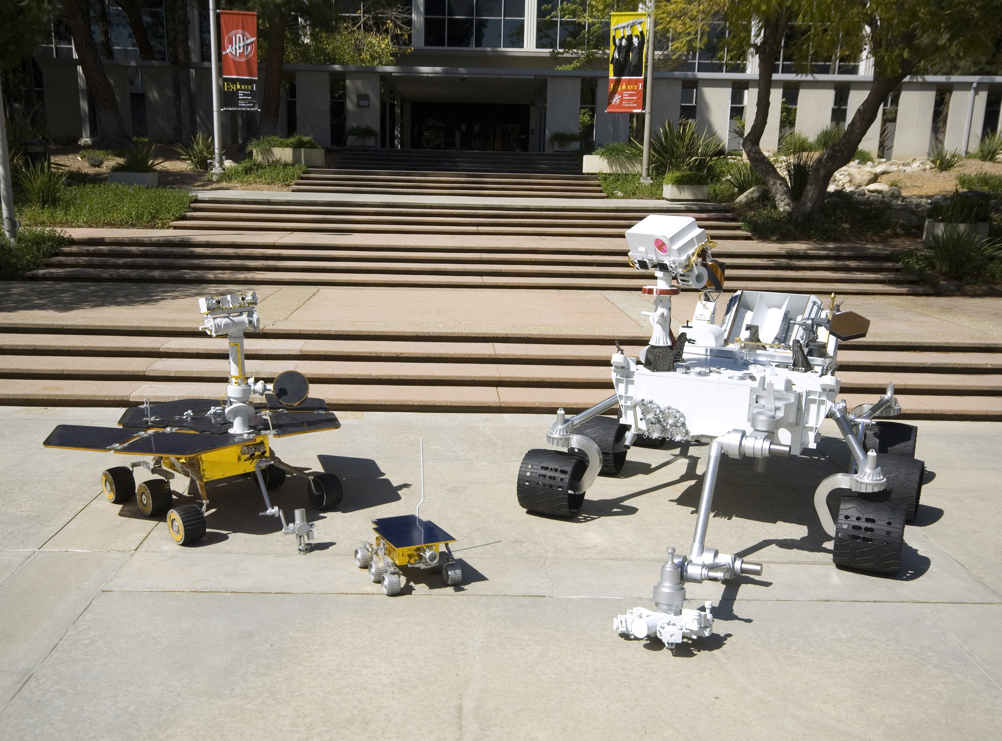 Mars Science Laboratory mockup (right) compared with the Mars Exploration Rover (left) and Sojourner rover (center) by the Jet Propulsion Laboratory.